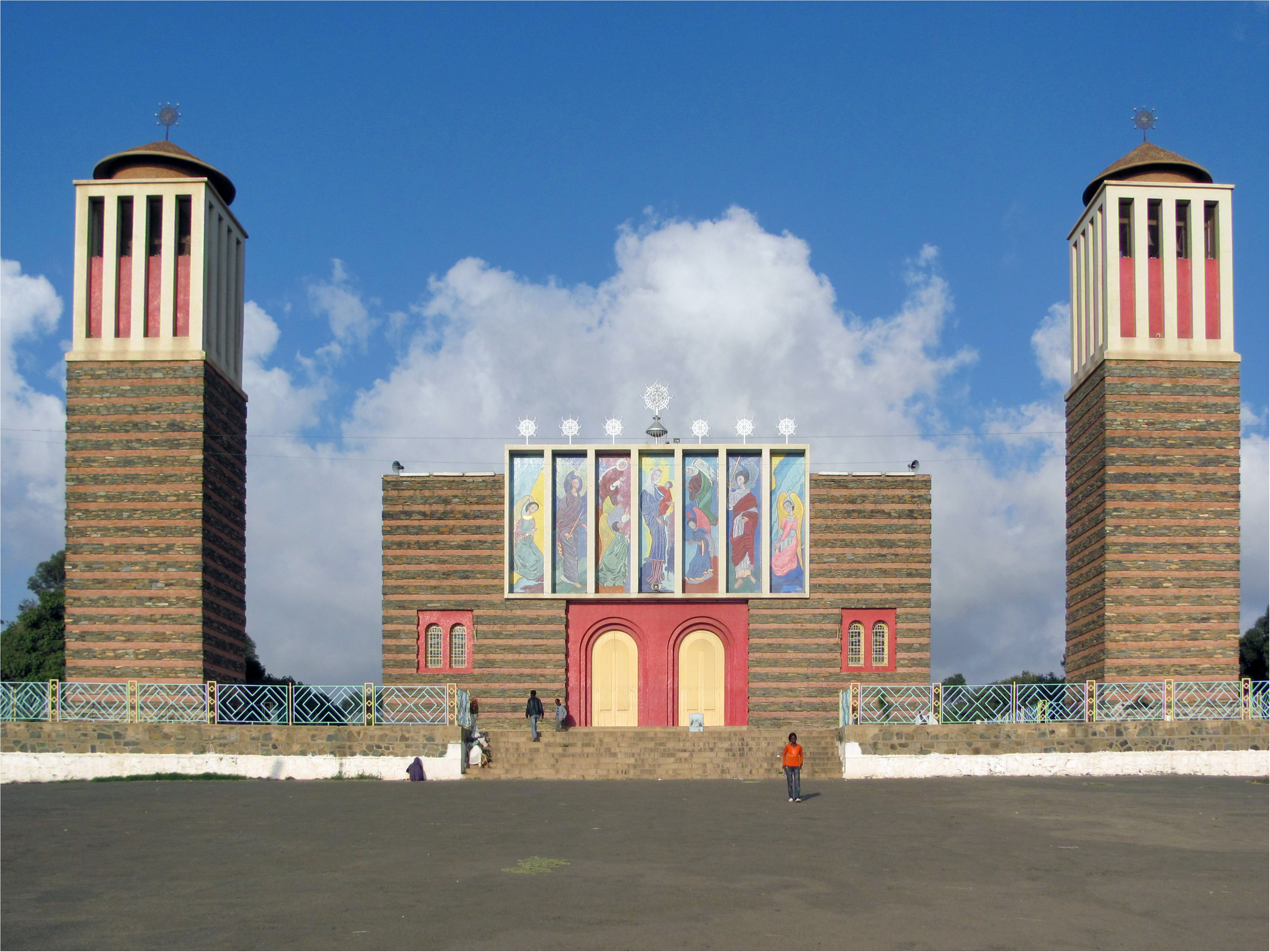 Coptic Cathedrale of Asmara, Eritrea